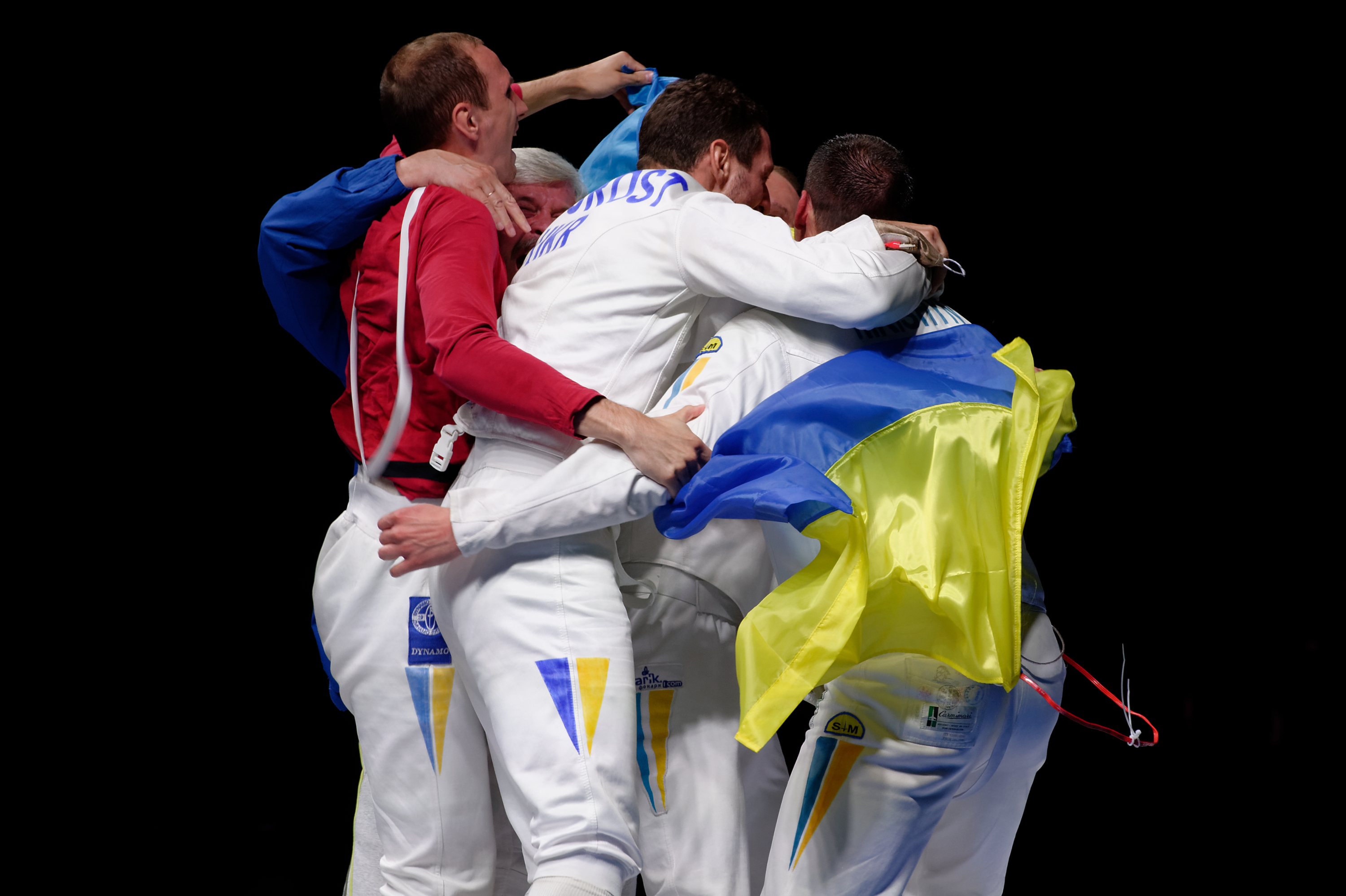 Ukraine celebrate their victory over South Korea in the men's team épée final of the 2015 World Fencing Championships on 18 July 2014 at the Olympic Stadium in Moscow.